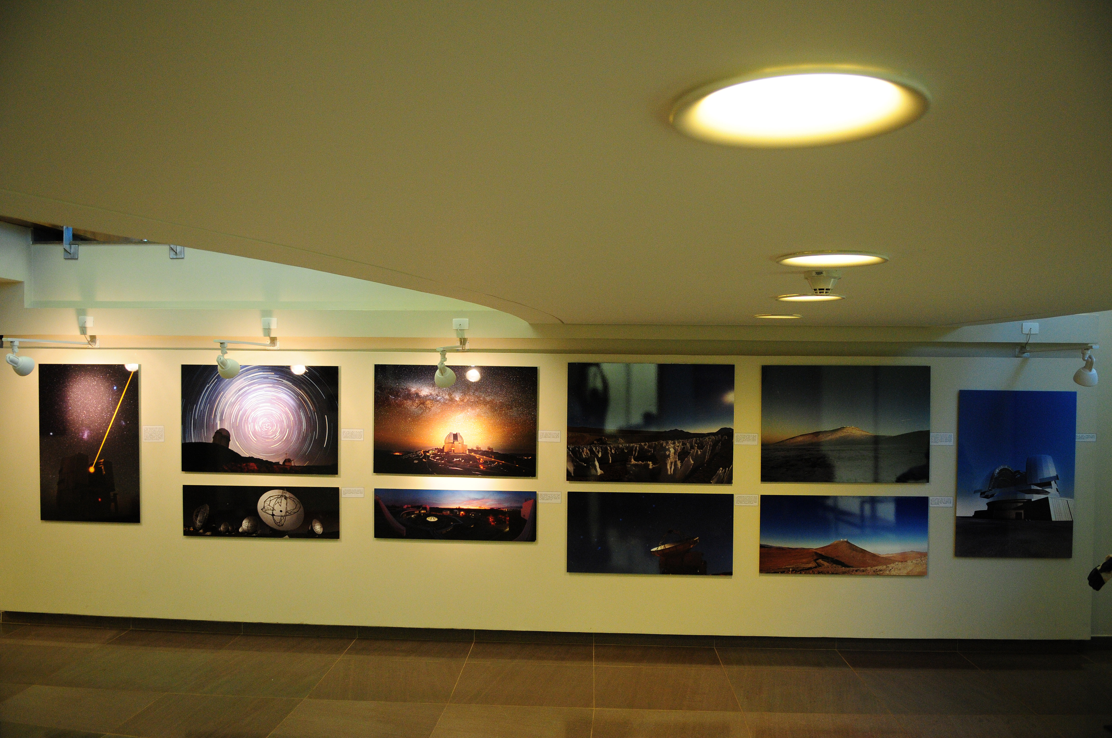 Planetário de Brasília, Brasília, DF, Brasil 2/3/2017. Foto: Pedro Ventura/Agência Brasília. Imagens de corpos celestes — galáxias, nebulosas, aglomerados — tiradas do Deserto do Atacama, no Chile, poderão ser vistas gratuitamente a partir de terça-feira (7) no Planetário de Brasília. As 50 fotografias da mostra Universo Surpreendente foram doadas pela organização intergovernamental de pesquisas em astronomia Observatório Europeu do Sul.